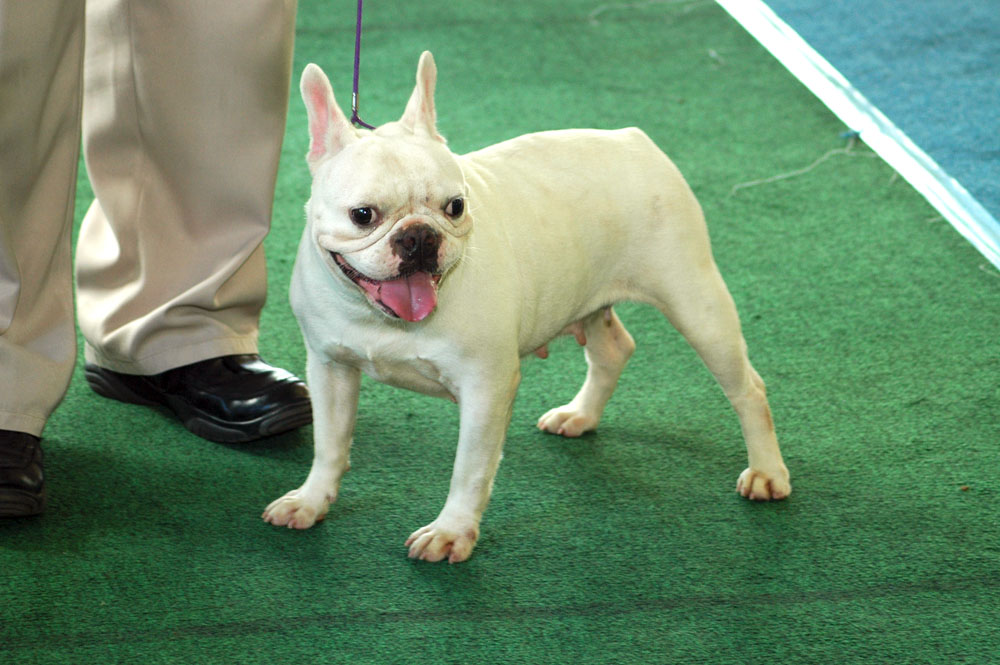 A female French Bulldog.